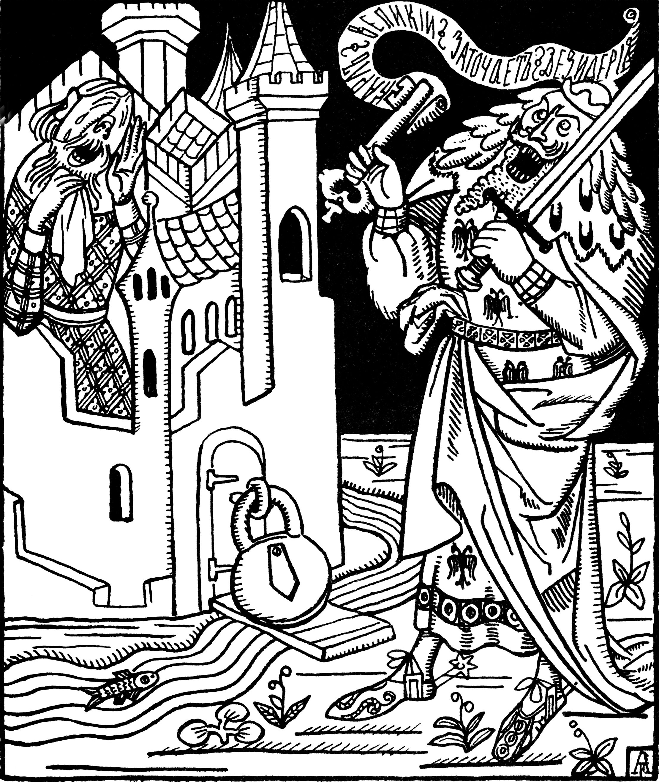 The illustration for the humorous book The General History Edited by Satyricon.